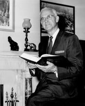 Arthur Vivian Watkins (1886 - 1973) U.S. Senator from Utah.